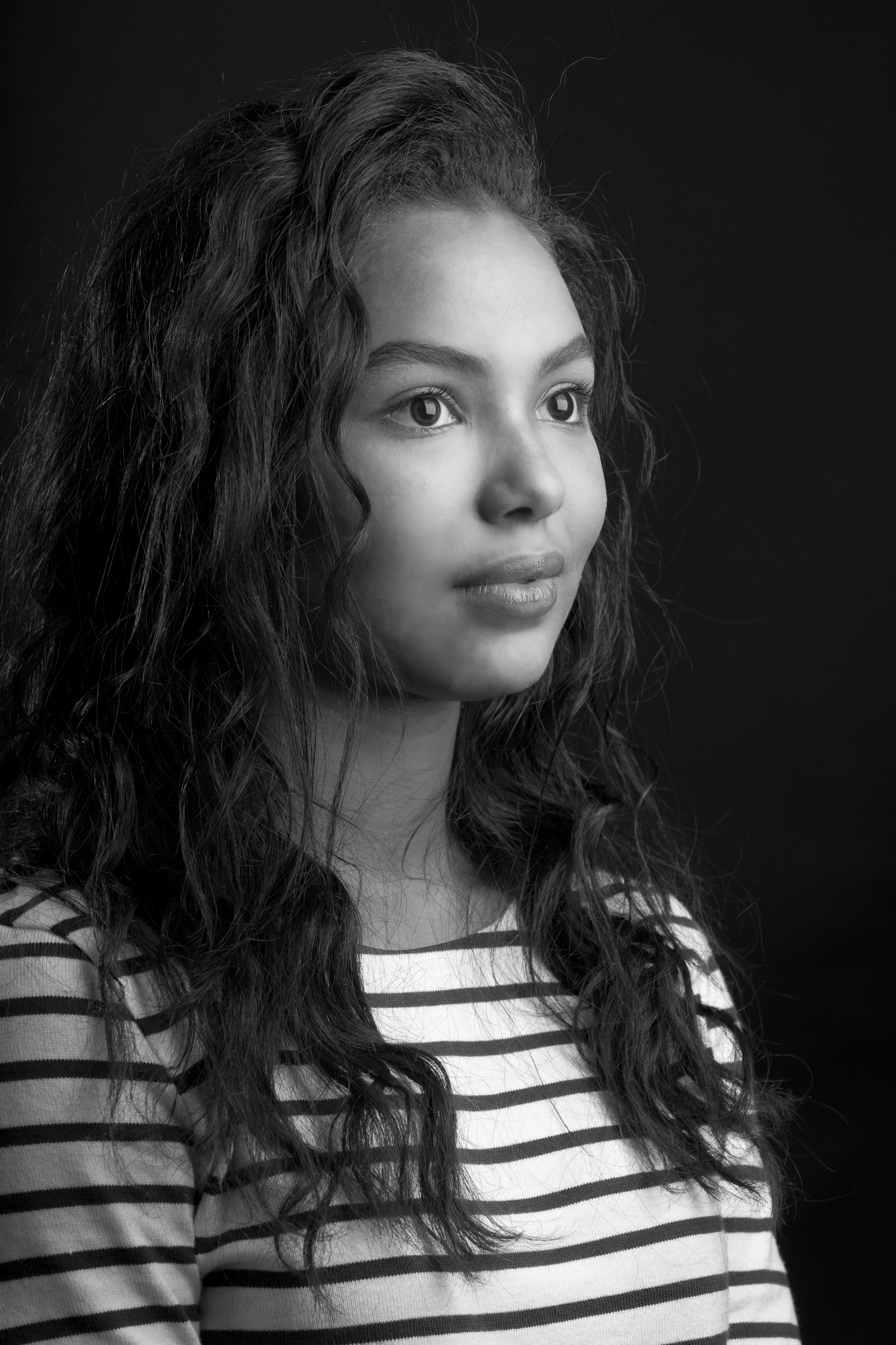 Jessica Sula portrait